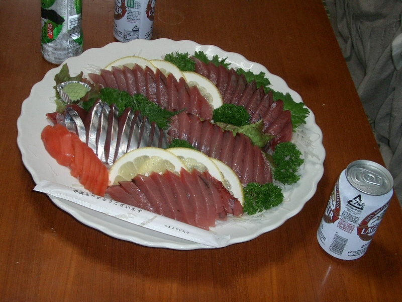 SAWACHI-RYORI (a dish of SASHIMI), local dish of Kochi, Japan(SAWACHI means "Big Dishes")